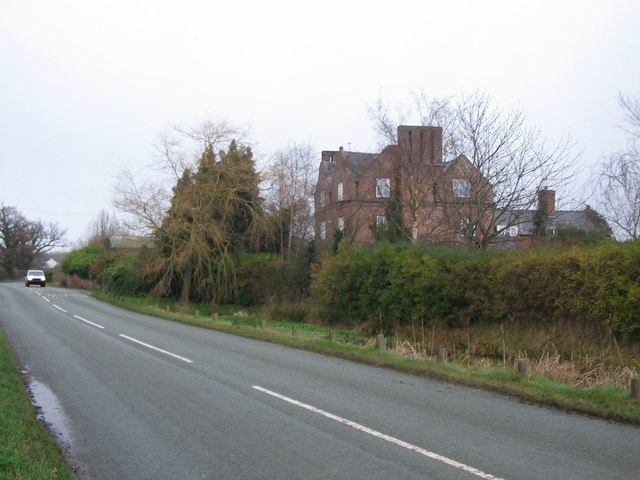 Stretton Lower Hall. A view looking north along the lane from Stretton to Barton, towards Stretton Lower Hall.